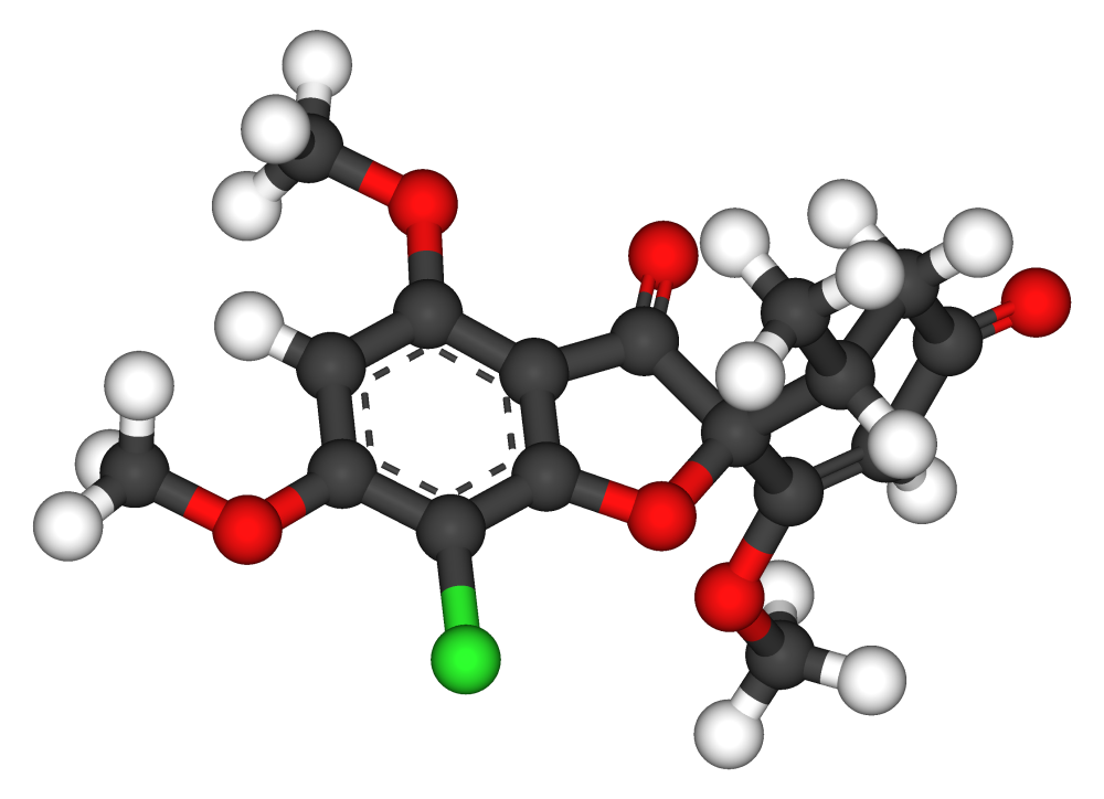 Ball-and-stick model of griseofulvin. Created using ACD/ChemSketch 10.0 and Accelrys DS Visualizer Pro 1.7.